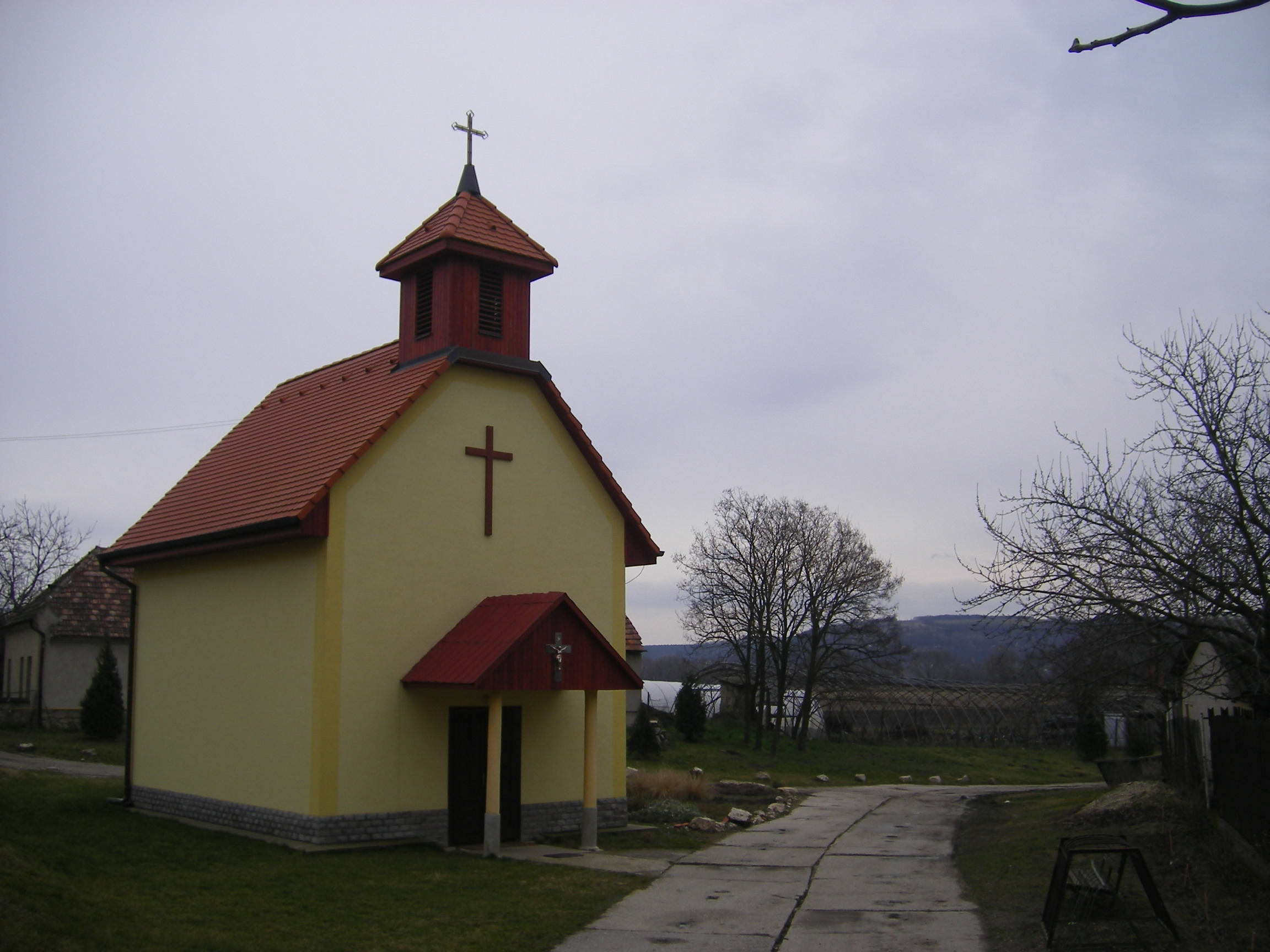 Patince - Catholic church.